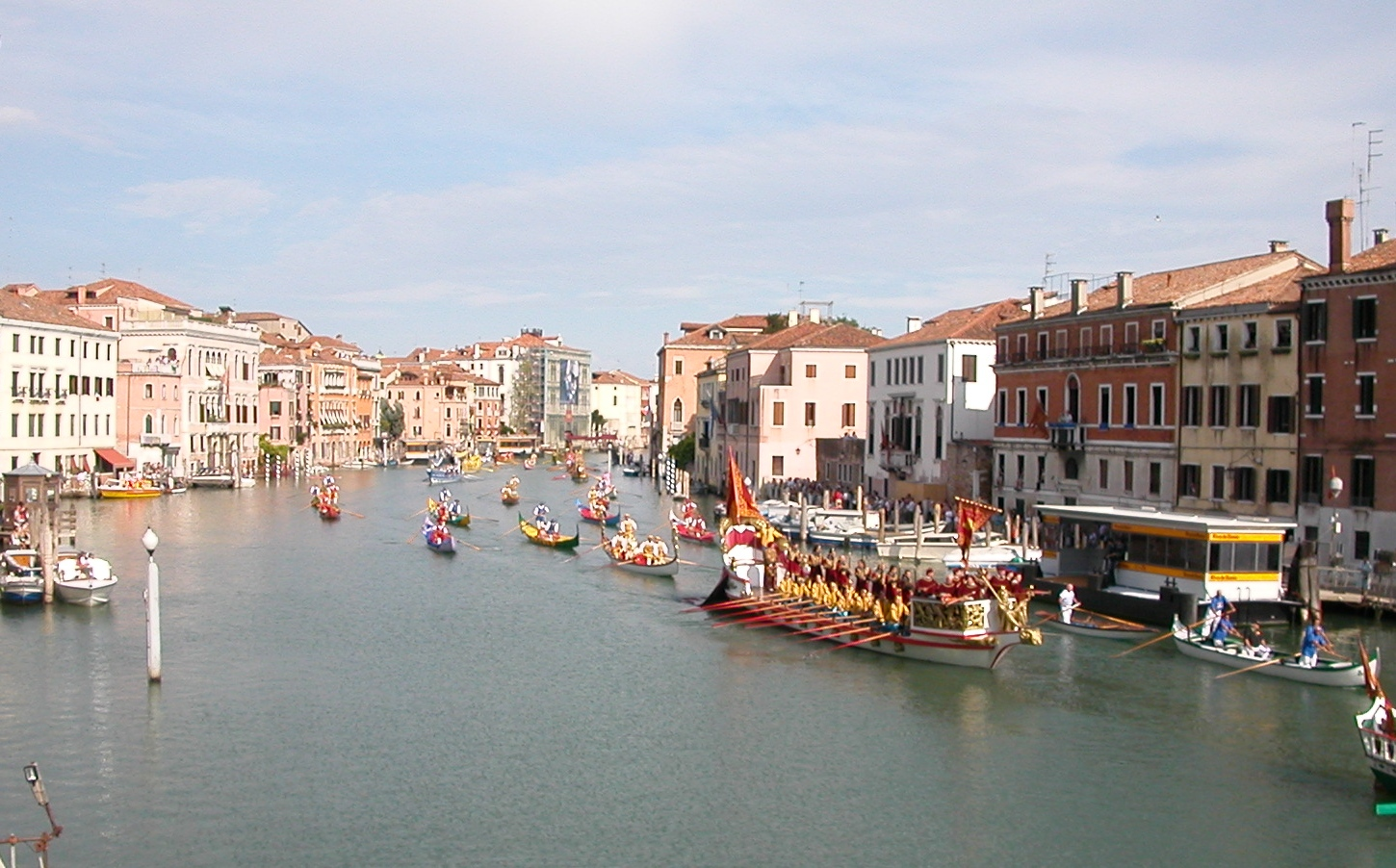 The 2008 edition of the Regata Storica di Venezia, in Venice (Italy), being a regatta in historical costumes.